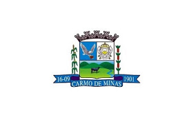 Flags of the city of Carmo de Minas, Minas Gerais, Brazil.